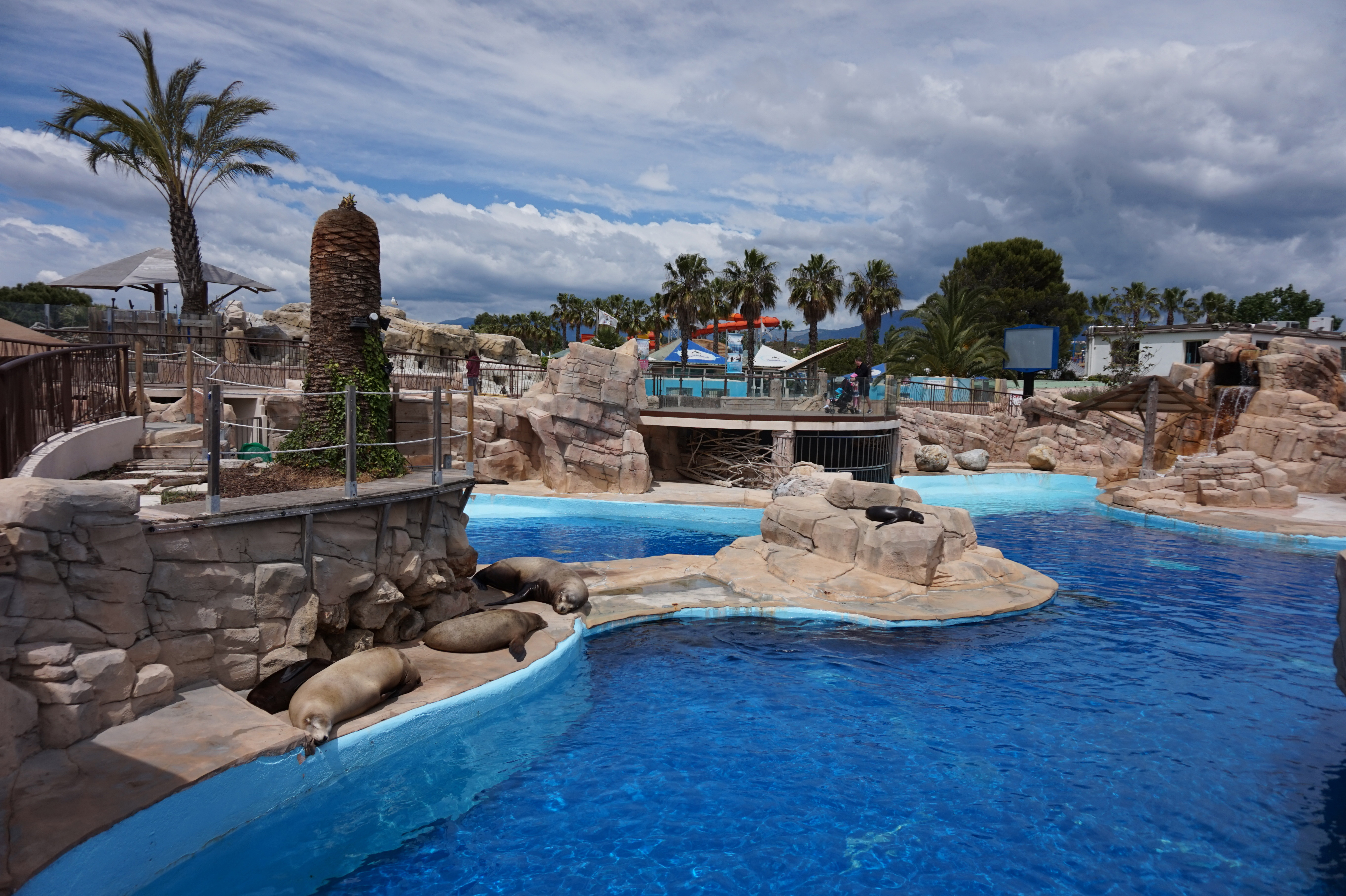 Marineland in Antibes.This photograph was taken with a Sony ILCE-5000